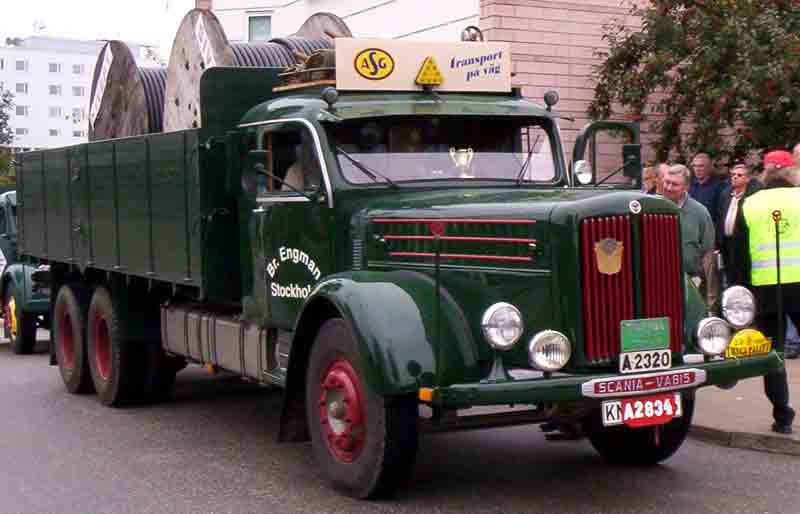 Scania-Vabis LS65 Truck 1952